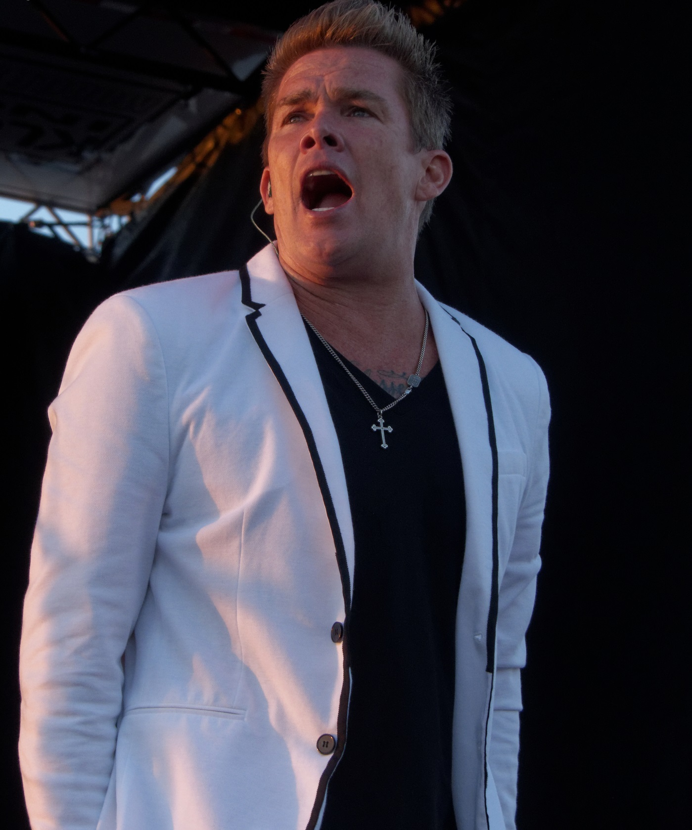 Mark McGrath (of Sugar Ray) performing live at the Huntington Beach Food Art & Music Festival in Huntington Beach California on Saturday September 6th, 2014.